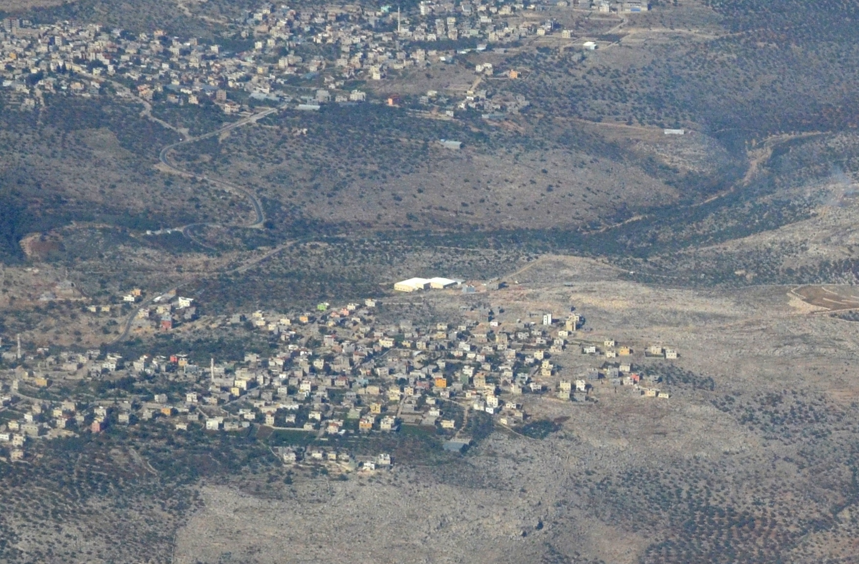 The closer village is Rafat. Behind it is Zawiya. Taken from the south.